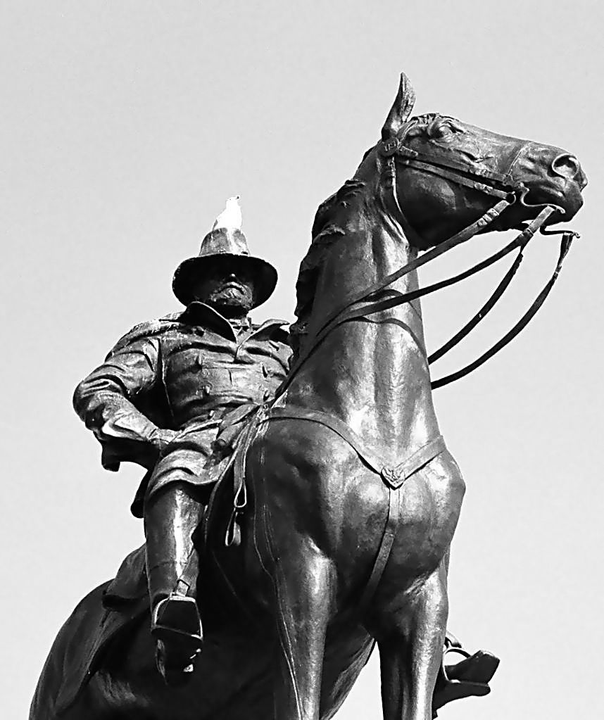 Ulysses S Grant Memorial, Capitol, Washington DC